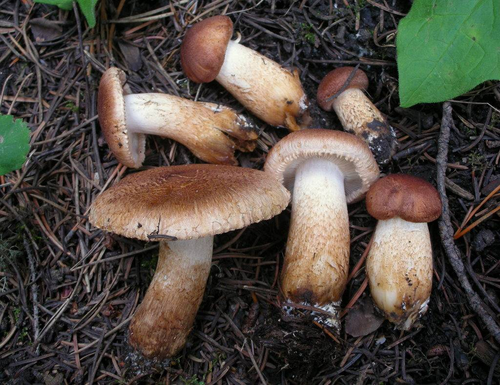 Fruit bodies of the agaric fungus Trichloma vaccinum (Schaeff.) P.Kumm. Specimens found in Fraser Experimental Forest, Grand Co., Colorado, USA. "Notes: Identified at the NAMA 50th Anniversary Foray in Colorado."